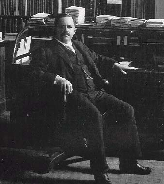 American chemist Wilbur Olin Atwater, ca. 1900, from the U.S. Department of Agriculture